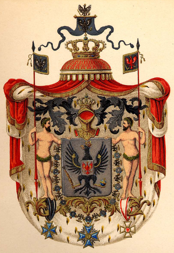 Coat of arms of kingdom of Prussia